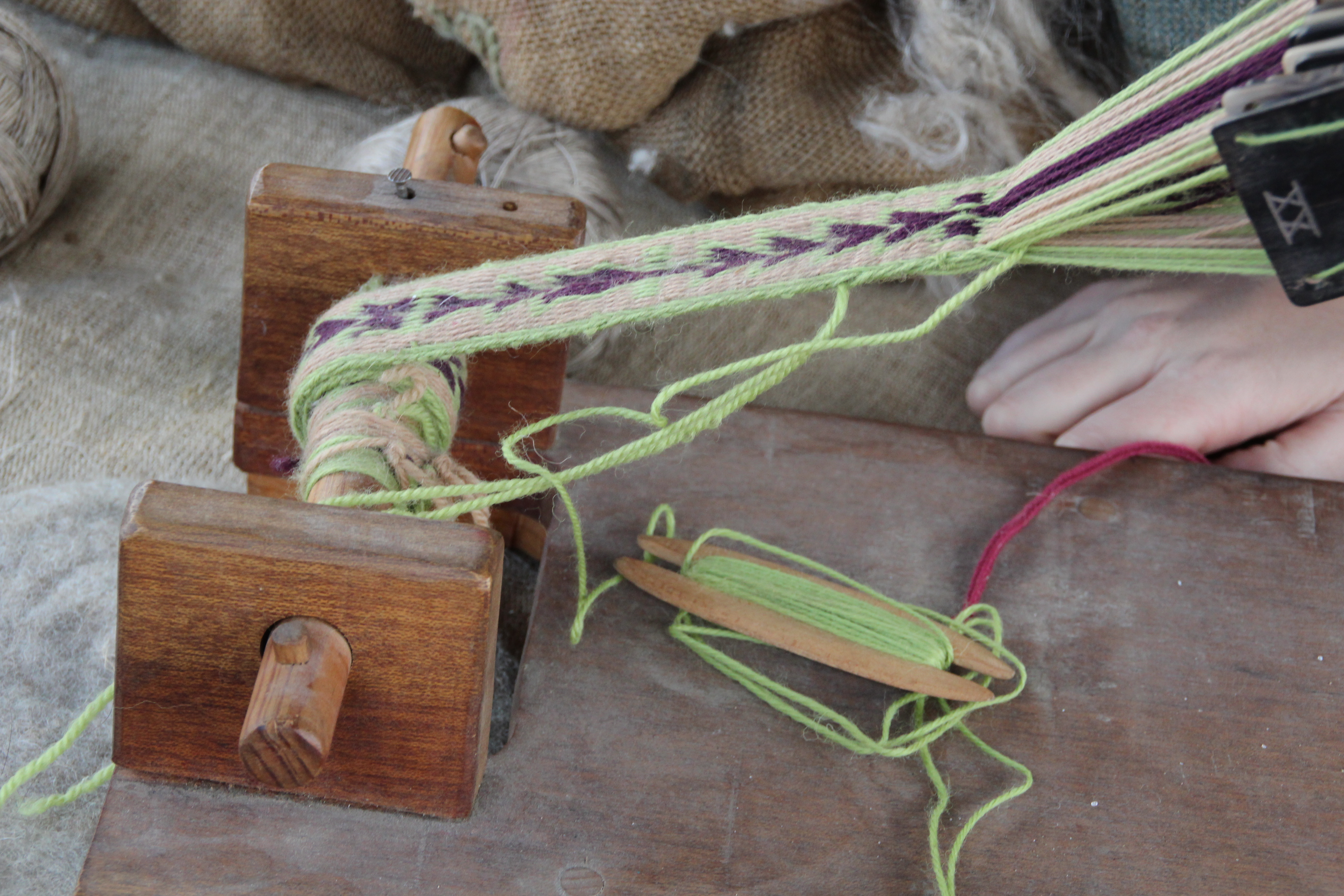 Archaeological site next to the industrial area SudEssor on the highway 20 at the entrance of Morigny-Champigny, France.